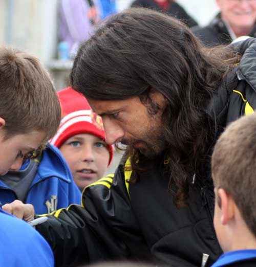 Gino Padula photographed by Jim Early on April 29, 2008 at the Jesse Owens Memorial Stadium on the campus of Ohio State University. The Columbus Crew played The Ohio State Buckeyes in the seventh annual Connor Senn Memorial Match. He is signing autographs for the fans.